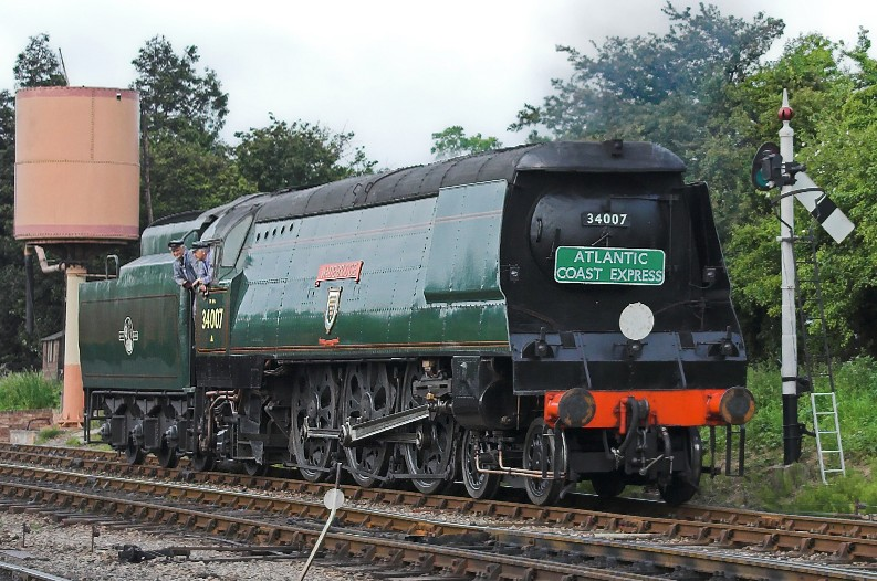 West Country Class: [1] [?]